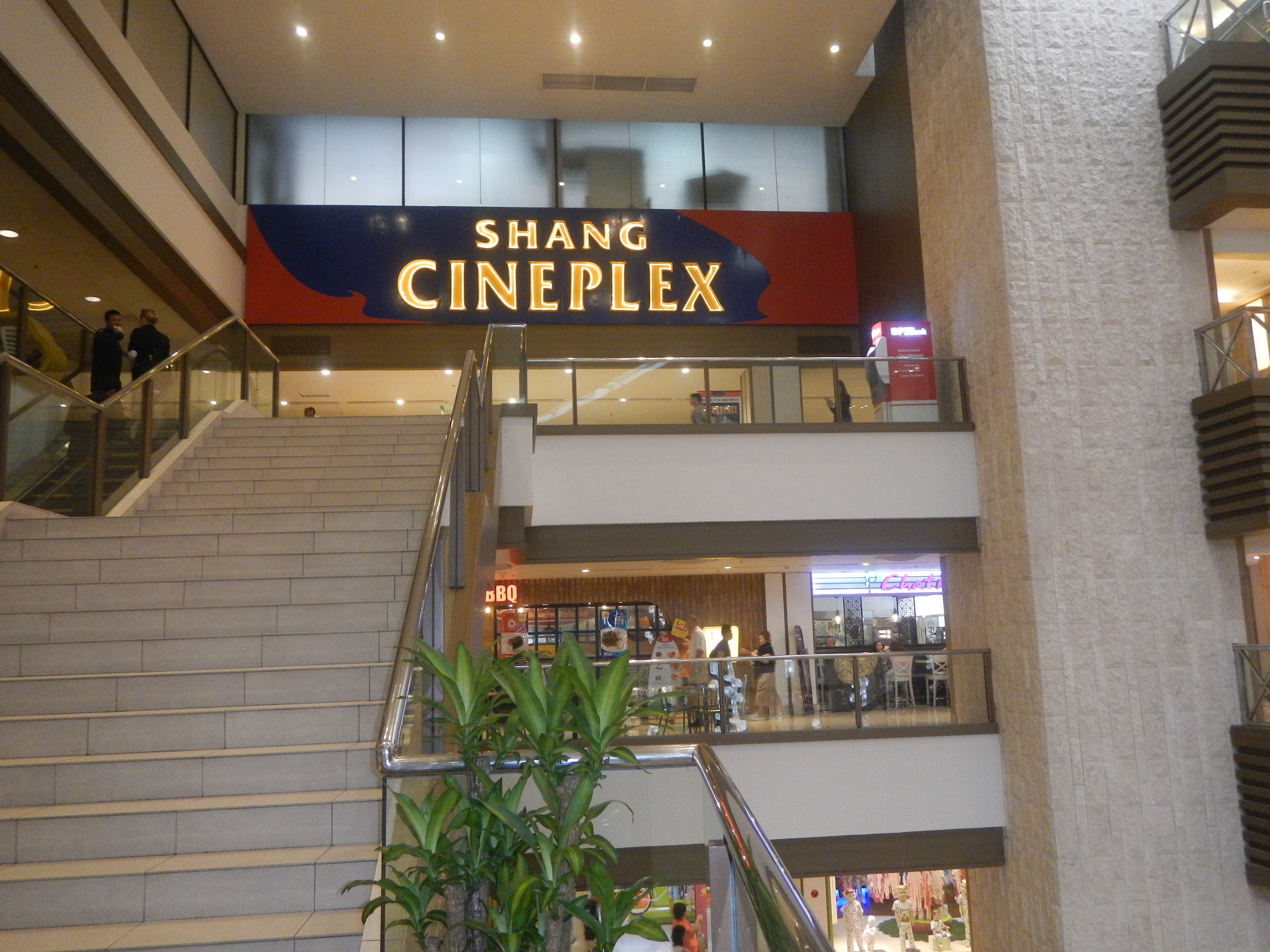 Korea’s Products on display at Shangri-La Korean Ambassador Kim Jae Shin Korean Royal Heritage Saint Padre Pio Chapel (Shangri-La Plaza) Shangri-La Plaza (Mandaluyong) 14°34'52"N 121°3'18"E Shangri-La Plaza Mandaluyong City Epifanio de los Santos Avenue (EDSA) (C-4) 14°34'40"N 121°3'3"E (Note: Judge Florentino Floro, the owner, to repeat, Donor Florentino Floro of all these photos hereby donate gratuitously, freely and unconditionally all these photos to and for Wikimedia Commons, exclusively, for public use of the public domain, and again without any condition whatsoever).